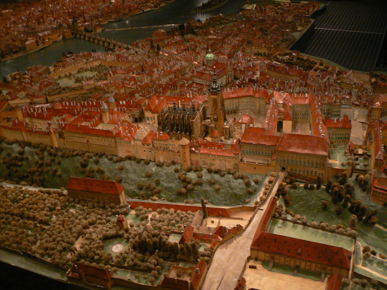 Antonín Langweil's model of Prague (1826-1837); this parts depicts the Prague Castle in 19th century